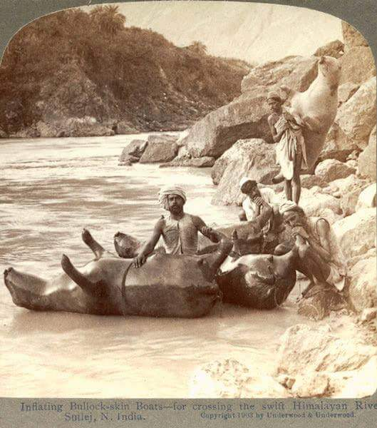 inflating bullock-skin boats for crossing the swift Himalayan river. Sutlej, north India